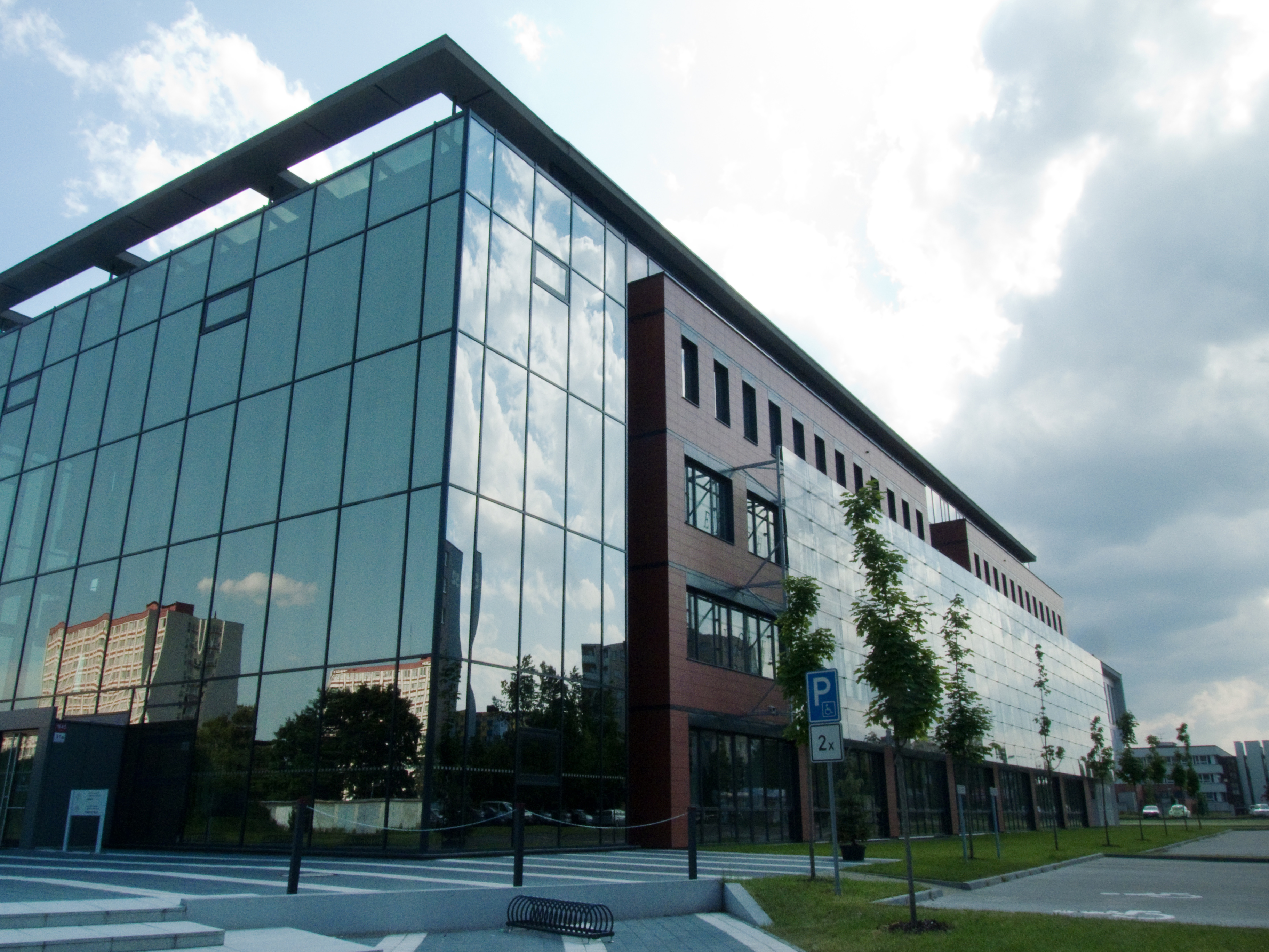 New South Bohemian University rectorate building in České Budějovice, Czech Republic opened on 4th November 2009.